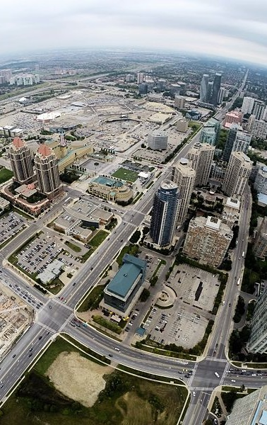 Arial view of Burnhamthorpe Rd. in downtown Mississauga